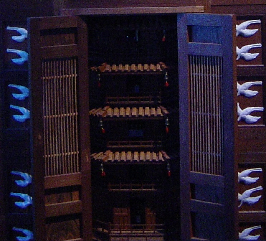 The two story tall time display panel of Su Song's Water Clock. This picture is from a scaled model of Su Song's water-powered clock tower. The original clock tower was 35 feet tall. It was a 3 story tower with an armillary sphere on the roof, and a celestial globe on the third floor. This picture was taken in July 2004 from an exhibition at Chabot Space & Science Center in Oakland, California. The quality of the picture is not ideal because flash photography was not allowed.